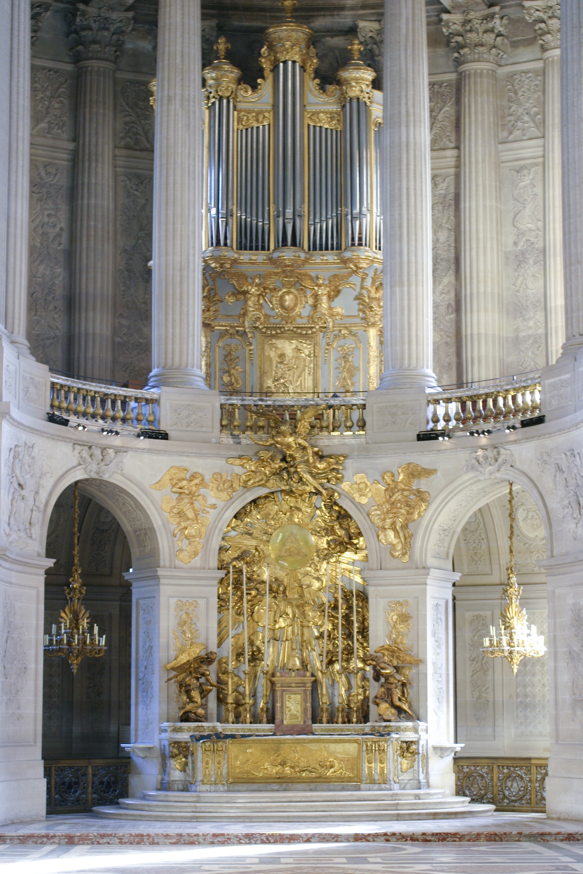 Interior view of the chapel of the château of Versailles.